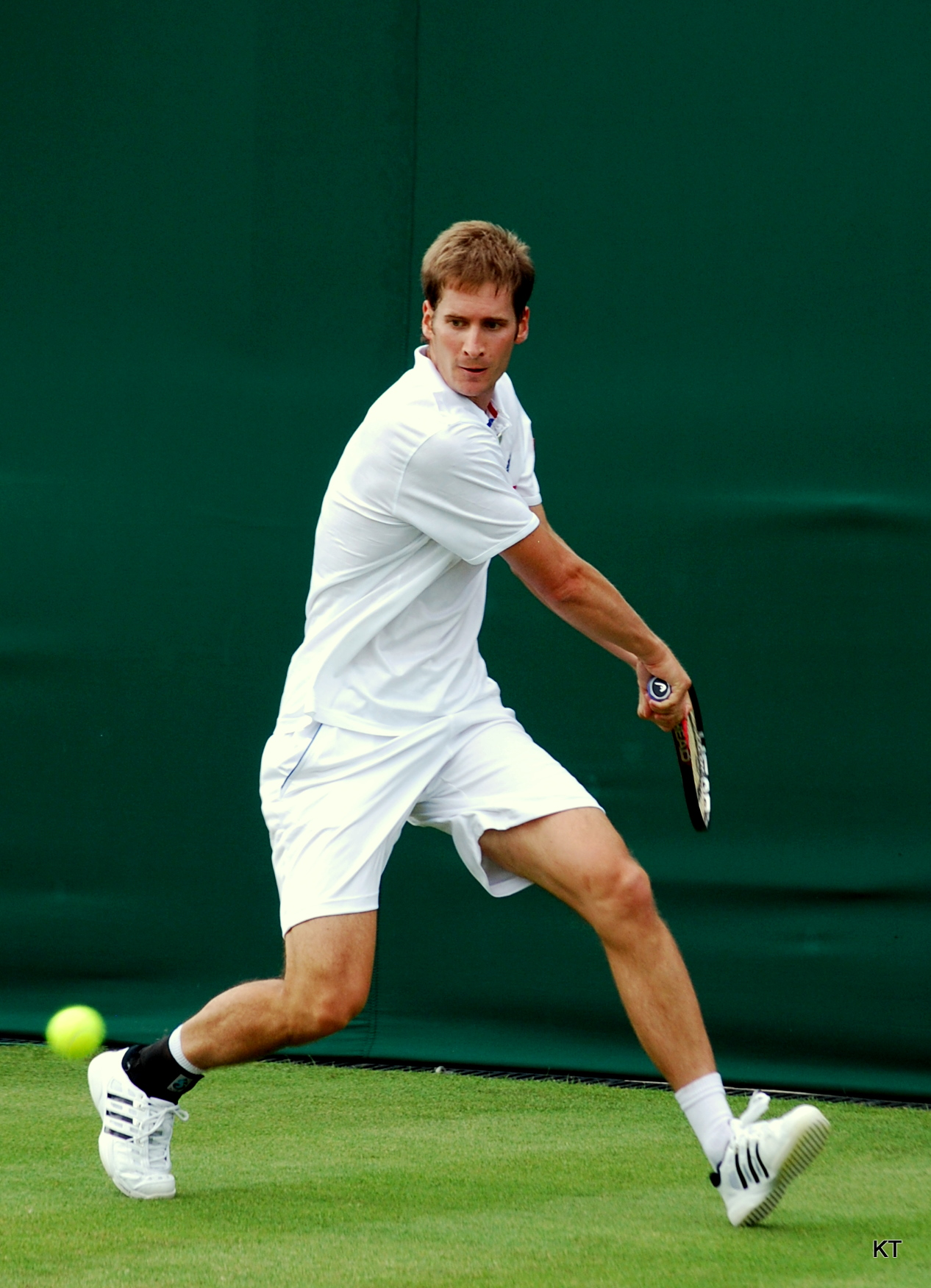 Florian Mayer during his first round match with Dan Evans. Mayer won 7-6, 7-6, 3-6, 6-4. Day 2 of Wimbledon 2011.